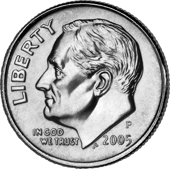 Removed background, cropped, and converted to PNG with Macromedia Fireworks. This image depicts a unit of currency issued by the United States of America. If Fraudulent use of this image is punishable under applicable counterfeiting laws. As listed by the United States Secret Service at money illustrations, the Counterfeit Detection Act of 1992, Public Law 102-550, in Section 411 of Title 31 of the Code of Federal Regulations (31 CFR 411), permits color illustrations of U.S. currency provided:1. The illustration is of a size less than three-fourths or more than one and one-half, in linear dimension, of each part of the item illustrated;2. The illustration is one-sided; and3. All negatives, plates, positives, digitized storage medium, graphic files, magnetic medium, optical storage devices, and any other thing used in the making of the illustration that contain an image of the illustration or any part thereof are destroyed and/or deleted or erased after their final use. Certain coins contain copyrights licensed to the U.S. Mint and owned by third parties or assigned to and owned by the U.S. Mint [1]. For the United States Mint circulating coin design use policy, see [2]; for the policy on the 50 State Quarters, see [3]. Also: COM:ART #Photograph of an old coin found on the Internet